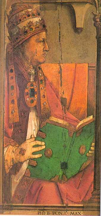 Pope Pius II (the humanist Aeneas Silvius Piccolomini), by Joos van Wassenhove, taken from